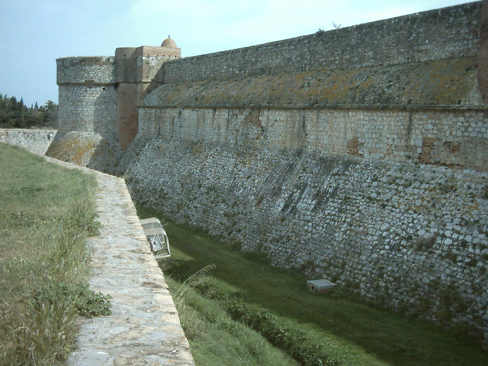 the Salses Fortress (Southern France).